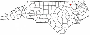 Category:North Carolina Dot Maps